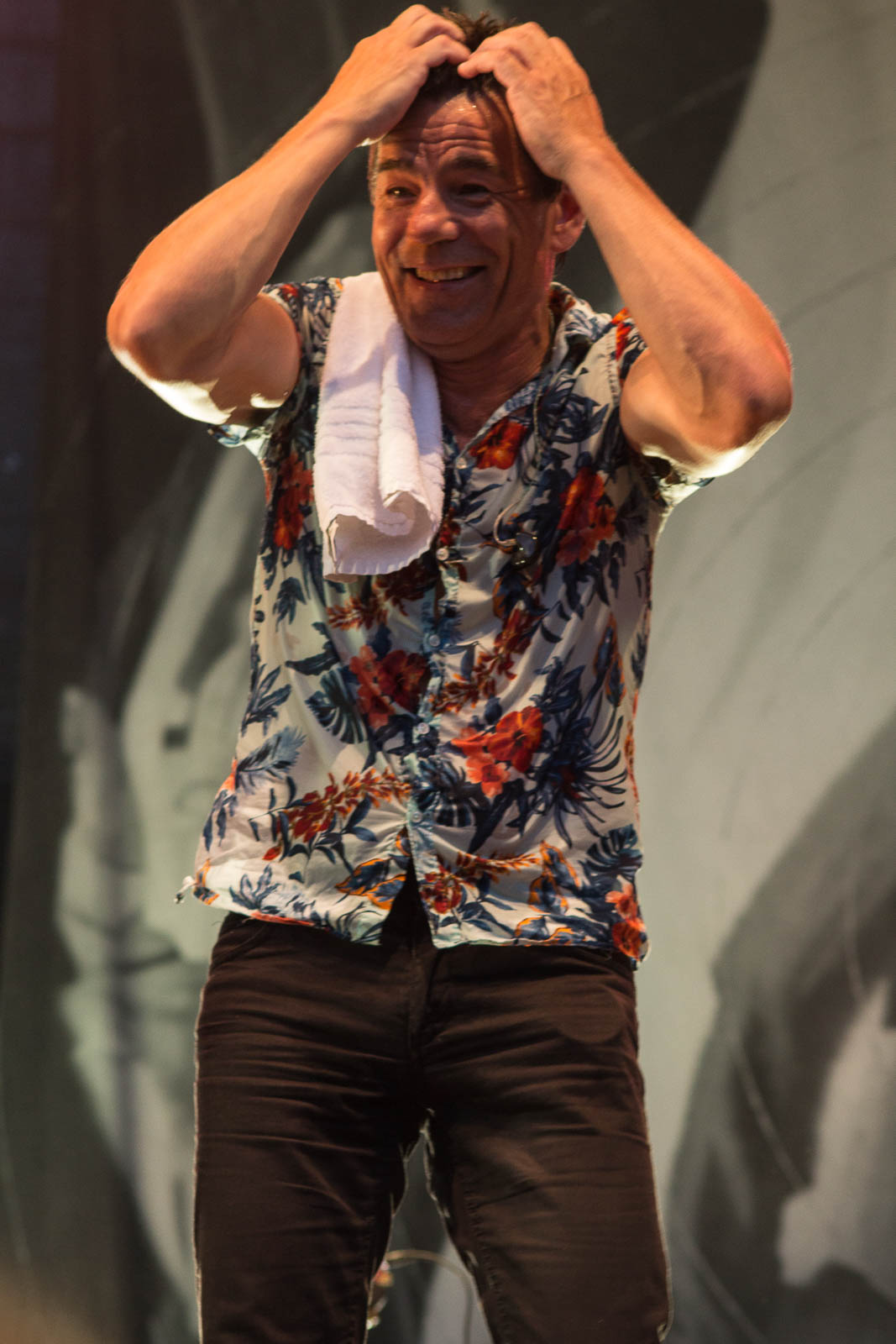 Canal Street (Arendal, Norway) 2016